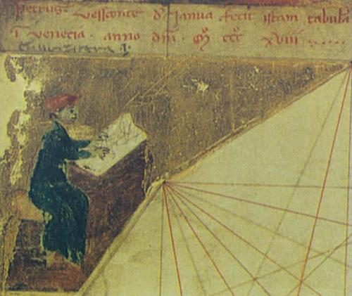 Portrait of a cartographer, assumed to be Pietro Vesconte himself, from the 1318 Vesconte atlas. The image is on the top left corner of the fourth sheet (chart of central Mediterranean) of the 7-sheet Vesconte atlas held (Port. 28) by Museo Correr in Venice, Italy.